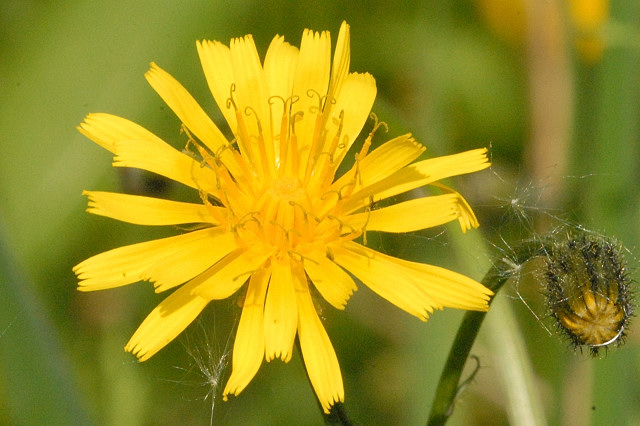 Crepis paludosa from Commanster, Belgian High Ardennes .